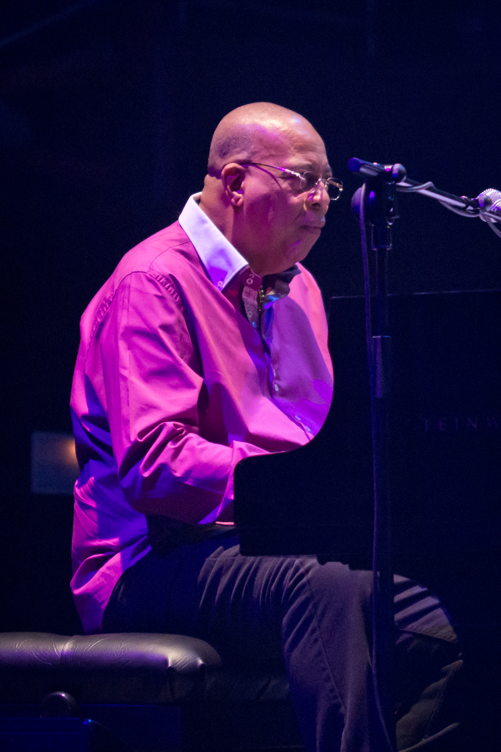 Chucho Valdés & The Afro-Cuban Messengers at a concert in Teatro Circo Price, Madrid, Spain.